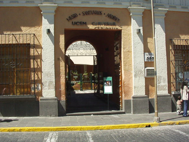 A museum in Arequipa...Here is the 'Momia Juanita'.